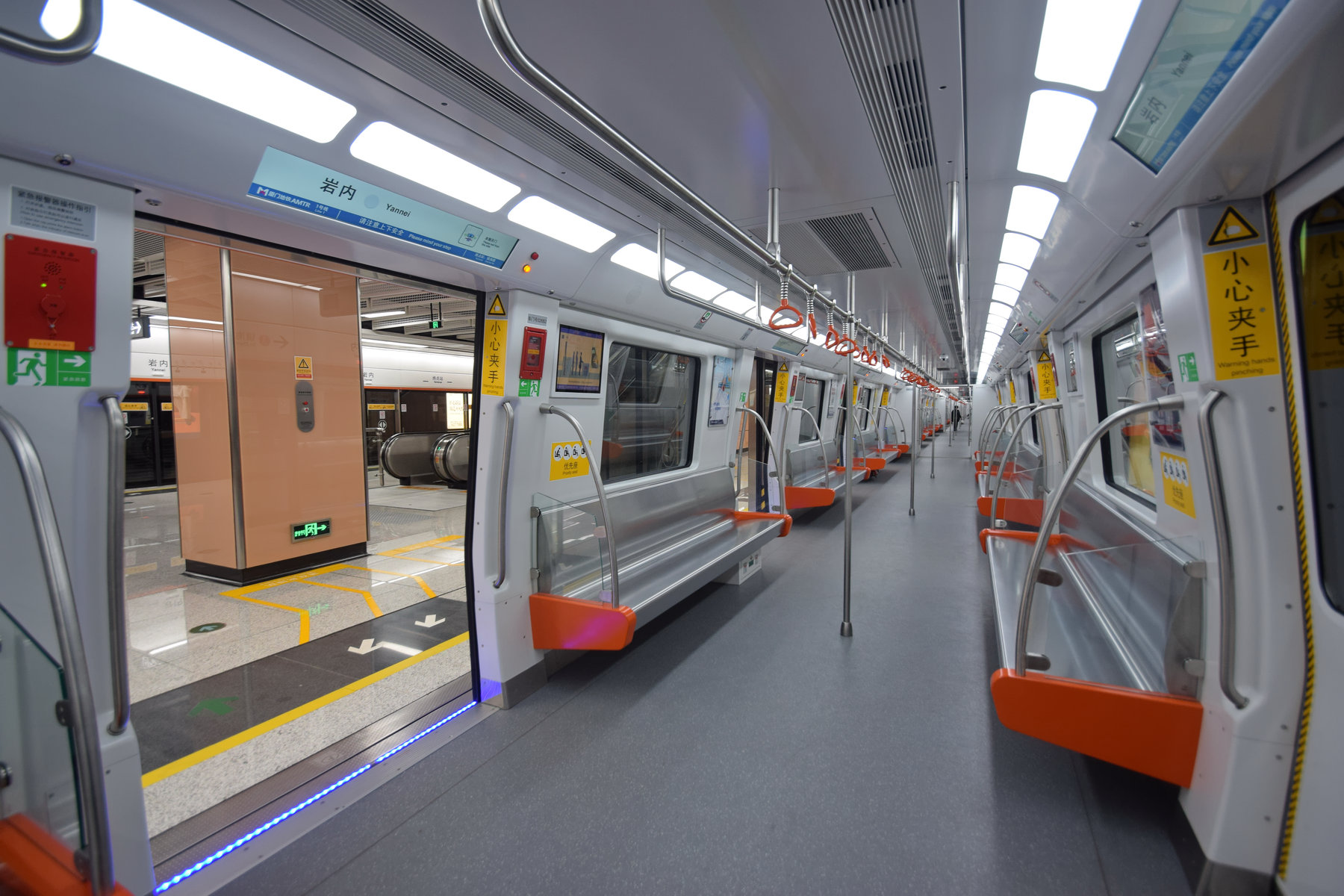 Interior of Xiamen Metro Line 1 Train